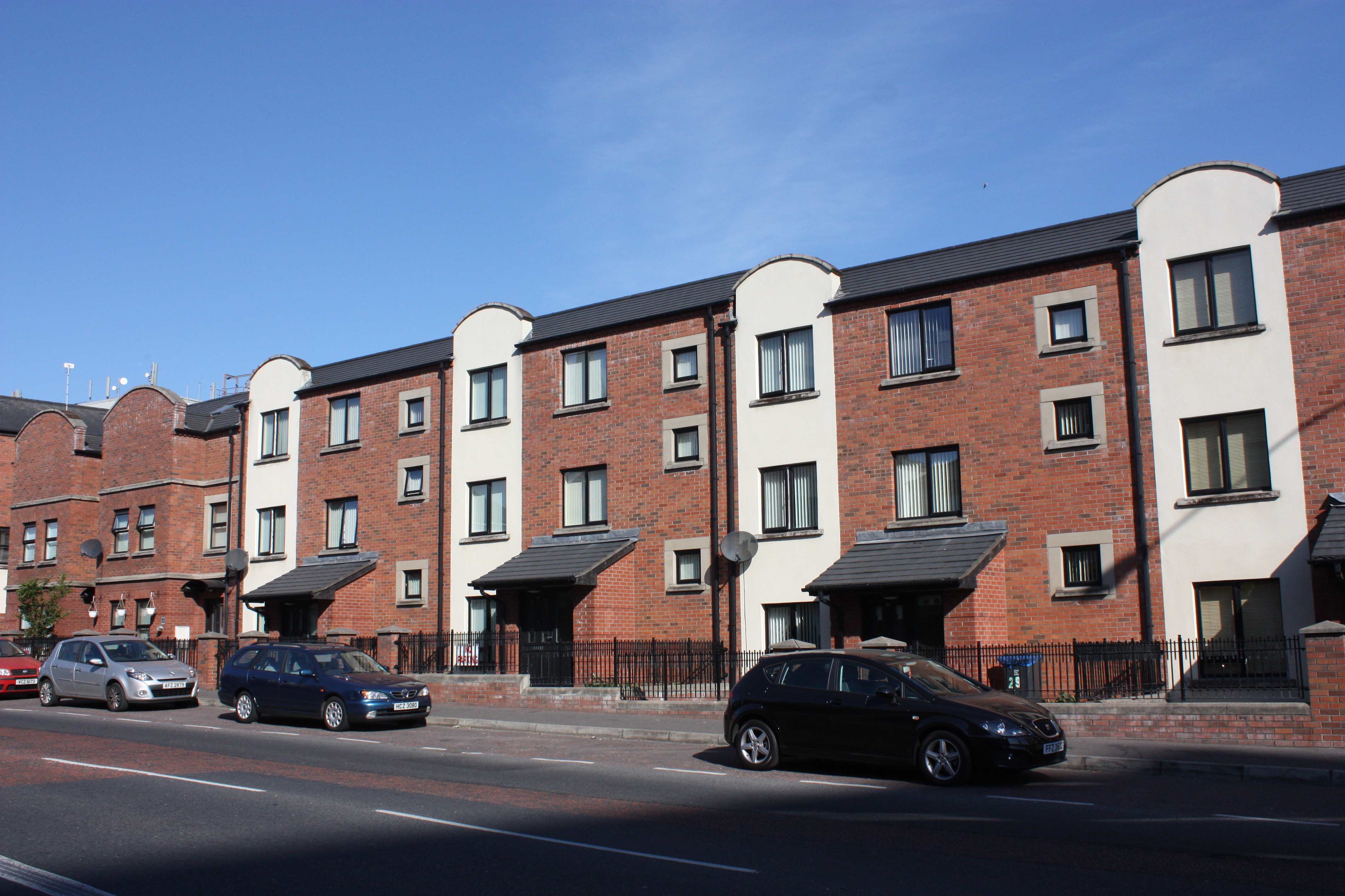 Divis Street, Belfast, Northern Ireland, May 2011